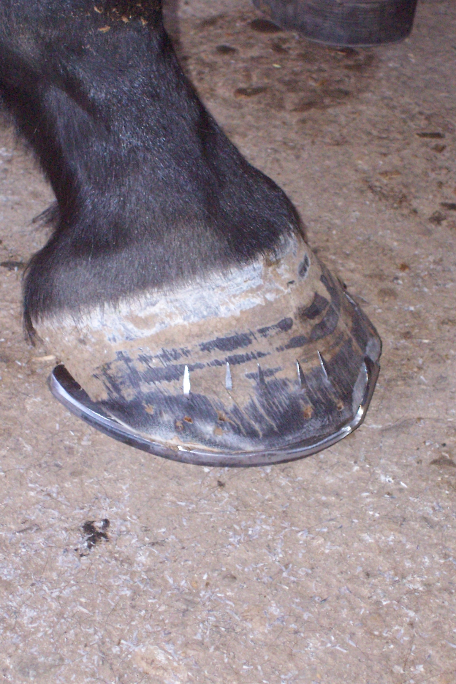 Shoeing in progress. Nails are well seen.